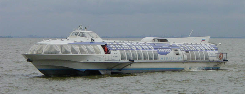 "Meteor" hydrofoil at the Peterhof near St. Petersburg, Russia. Very "shipshape", clean and well maintained.